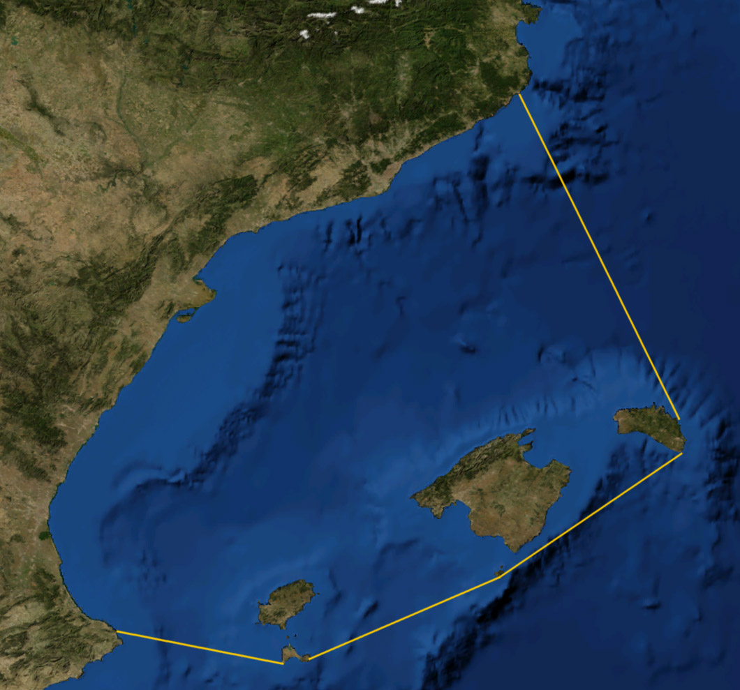 Satellite Picture of the Balearic Sea, delineated